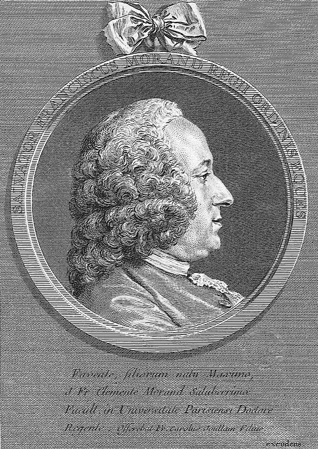 Sauveur François Morand (1697-1773) French Physician